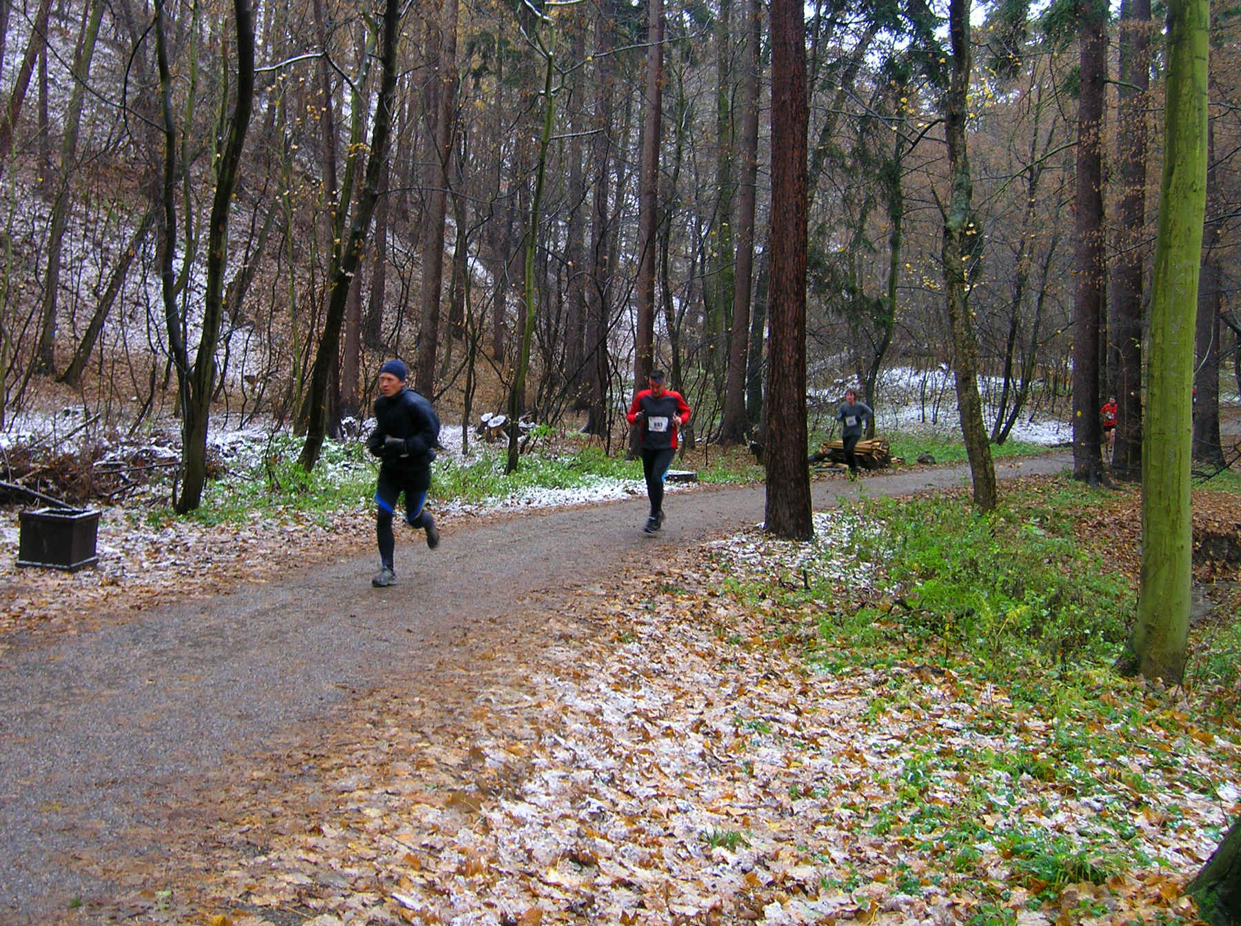 Velká kunratická - cross country running in Prague, Czech Republic